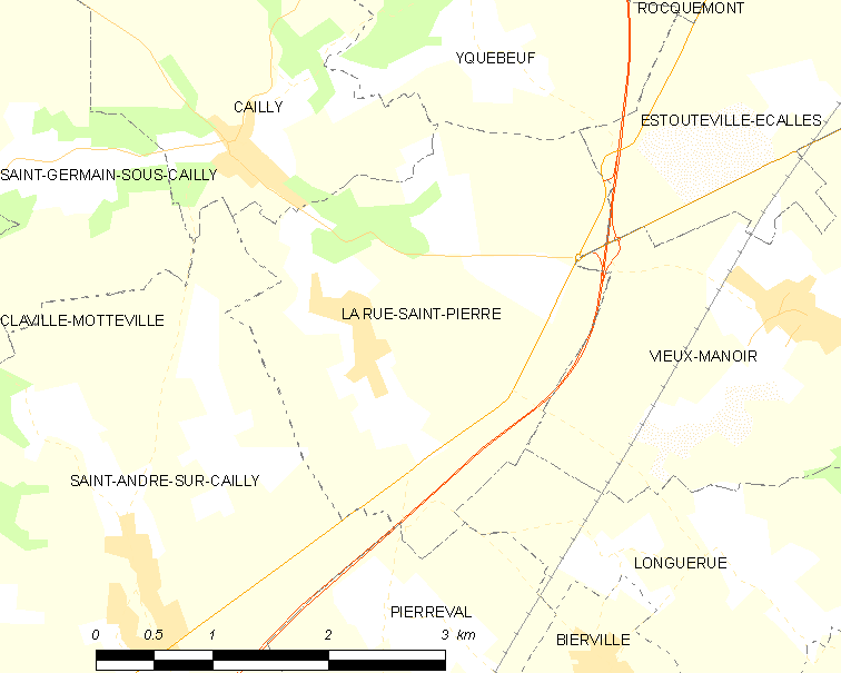 Map of French municipality La Rue-Saint-Pierre